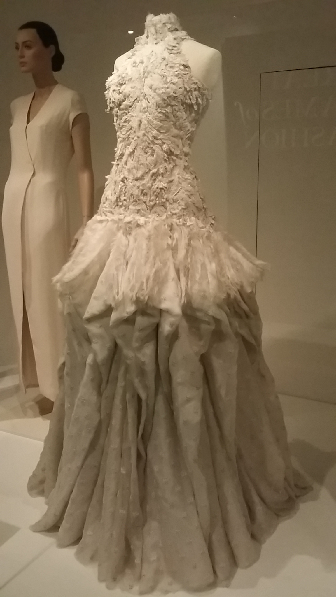 White embroidered tulle and organza ballgown designed by Sarah Burton for Alexander McQueen. Chosen to represent the Dress of the Year 2011.